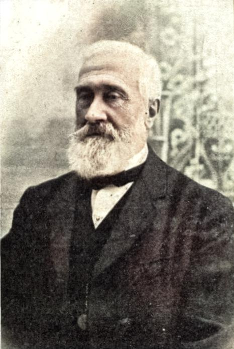 José Erasmo de Janer 2